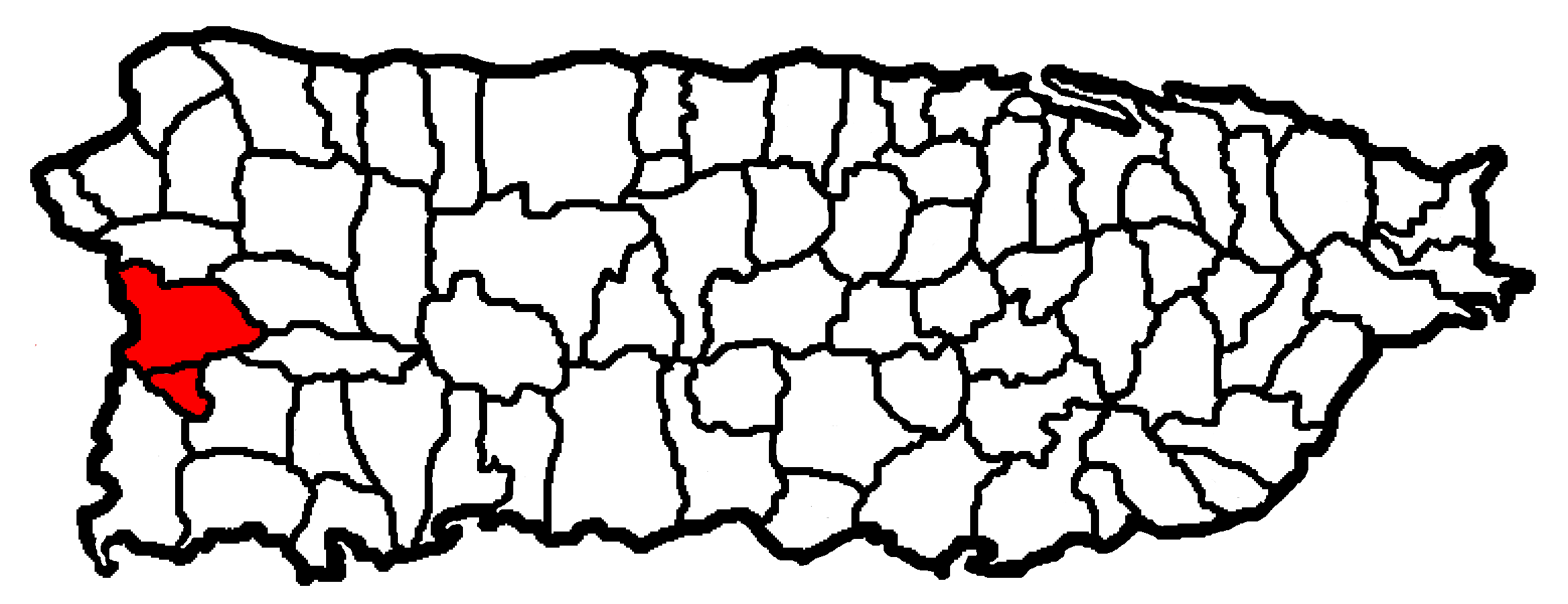 Map of Puerto Rico highlighting the Mayagüez Metropolitan Statistical Area. Created with the GIMP. Adapted from Image:Map_of_the_78_municipalities_of_Puerto_Rico.png by Alessandro Cai (OliverZena).